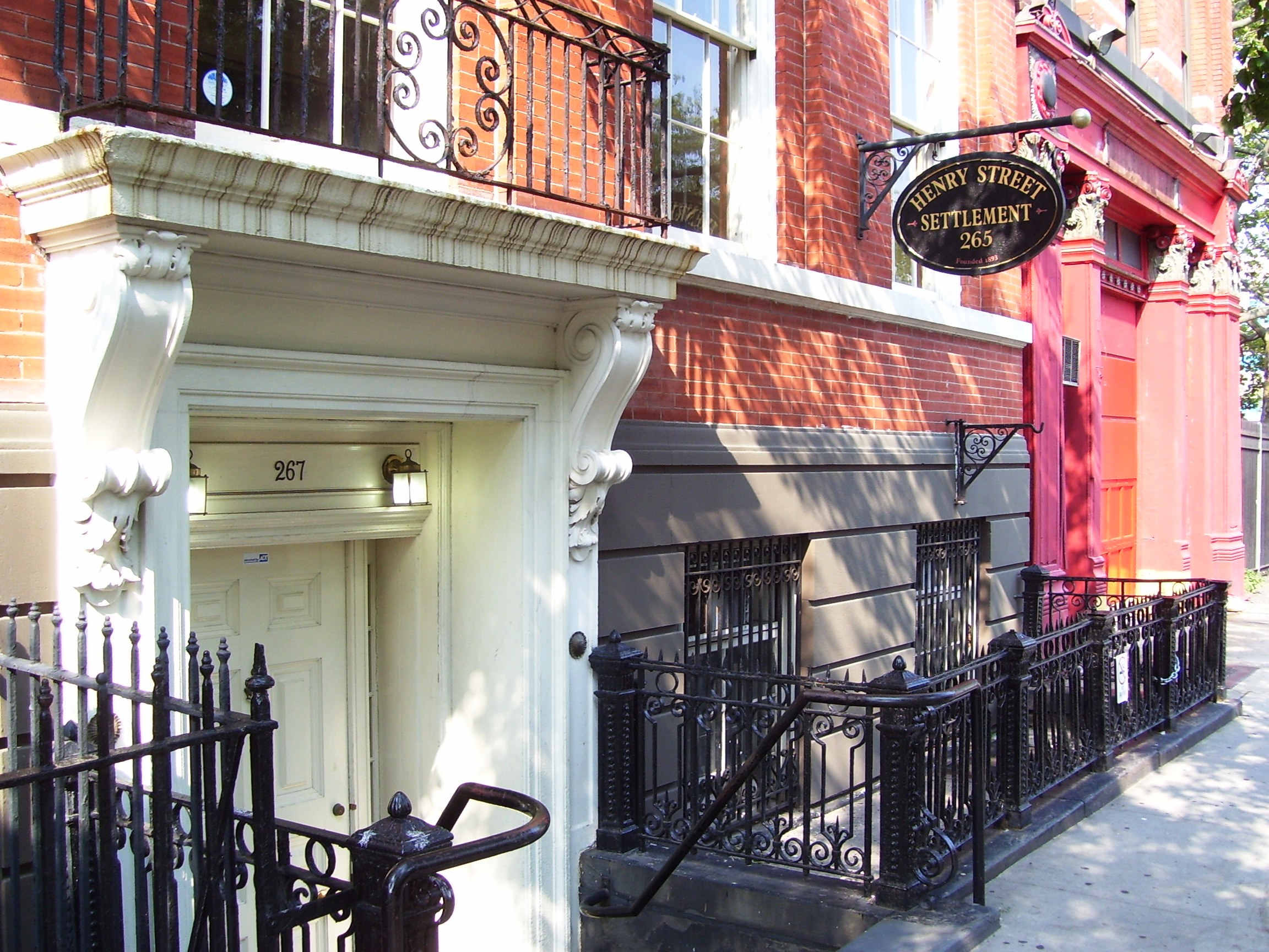 263-267 Henry Street between Montgomery and Grand Streets in the Lower East Side of Manhattan, New York City are part of the Henry Street Settlement. The settlement was founded in 1893 by Lillian Wald as the Nurses' Settlement, and in 1895 Jacob Schiff bought 265 Henry Street for the organization's use, and gave it to them in 1903. In 1906, the Settlement expanded into the Greek Revival townhouse next door at #267, which had a Colonial Revival facade by Buchman & Fox; the new building was a gift from Morris Loeb. In 1938, the settlement began leasing #263, and purchased it in 1949. #263 was restored in 1989 and #265 in 1992. (Source: Guide to NYC Landmarks (4th ed.))